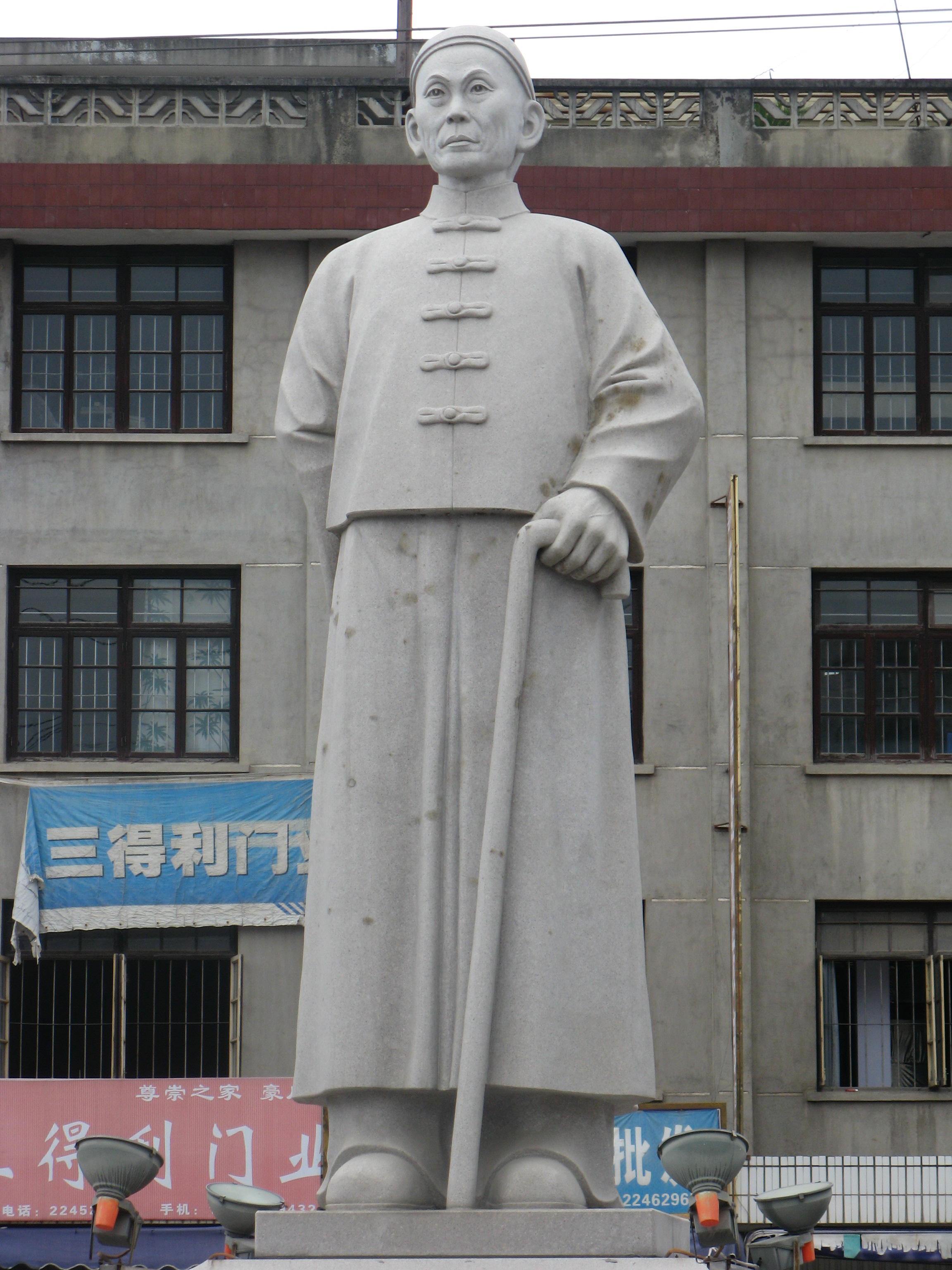 Statue of Wong Nai Siong, Minqing, Fuzhou